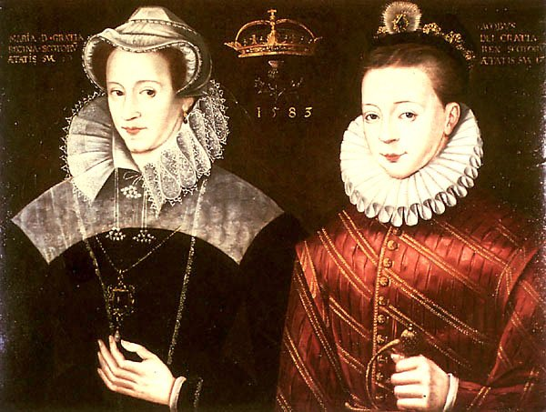 Mary Stuart (formerly Queen Mary I, abdicated) and her son King James VI of Scotland (later James I of England), 1583